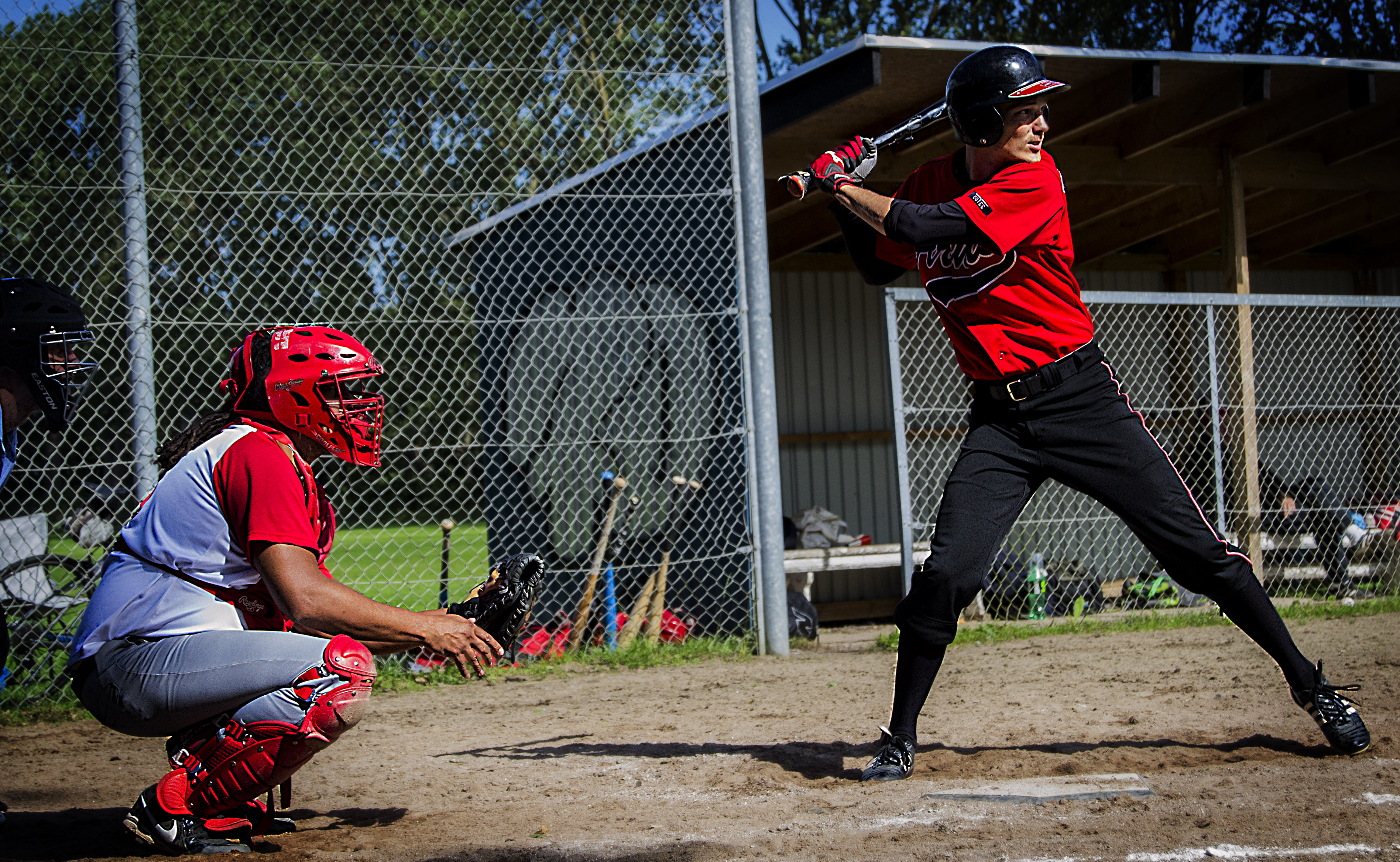 ÅBSK spiller står klar til at batte til bolden